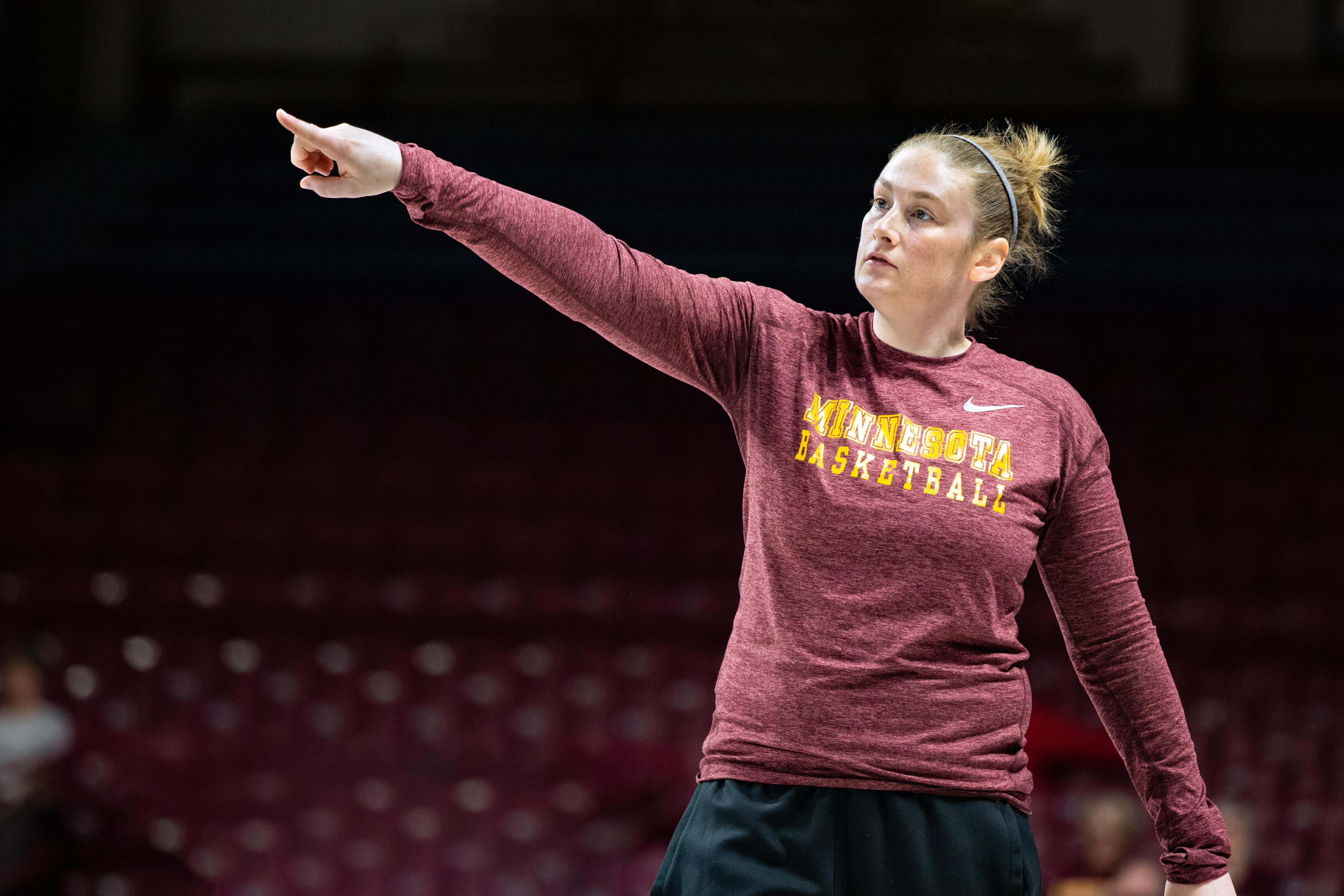 Lindsay Whalen coaches the Gophers women’s basketball team open practice/scrimmage on October 20 at Williams Arena, Minneapolis